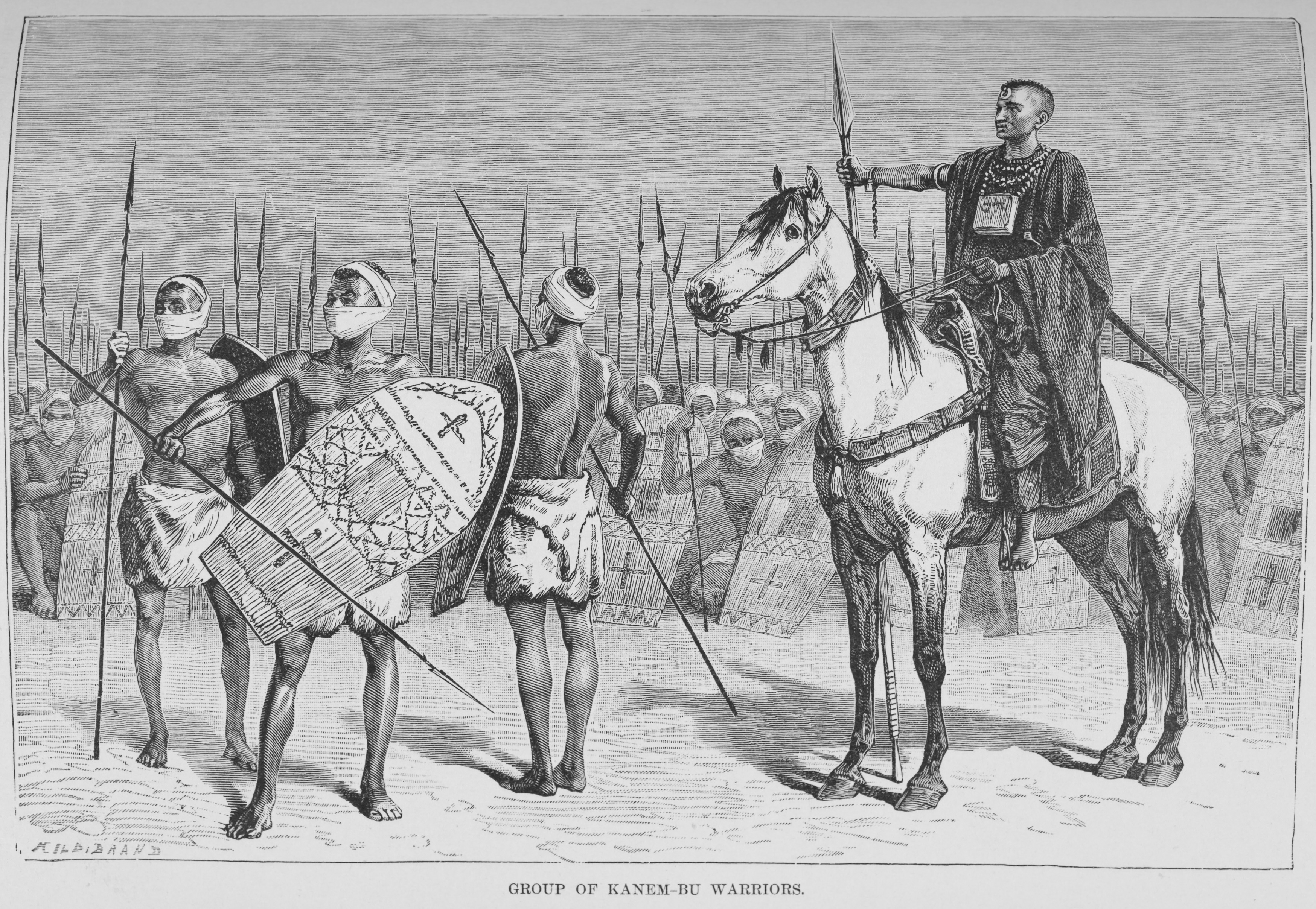 Group of Kanem-Bu warriors. From The earth and its inhabitants, Africa, (published 1890-1893 [v.1, 1892]).